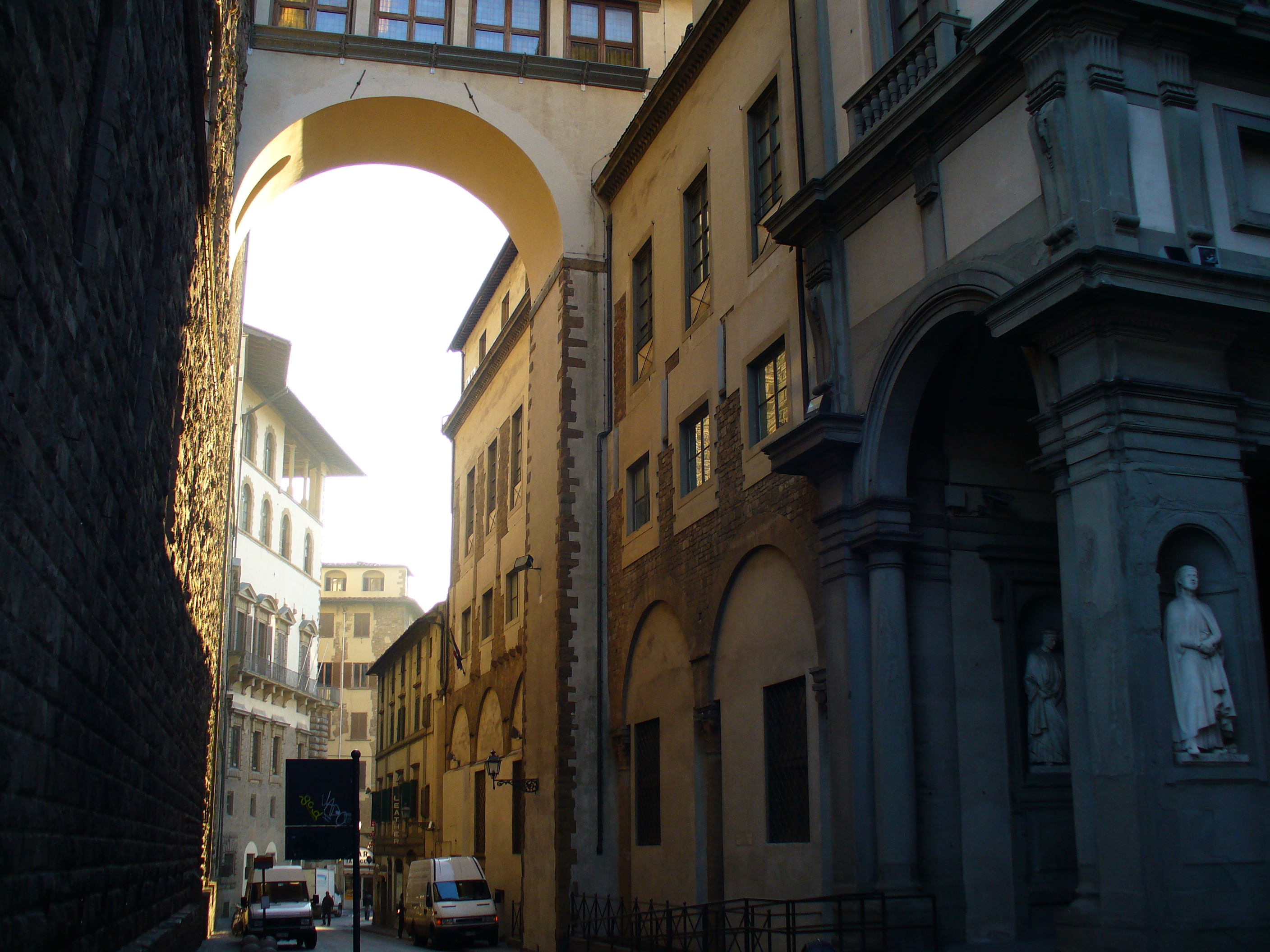 Vasari Corridor